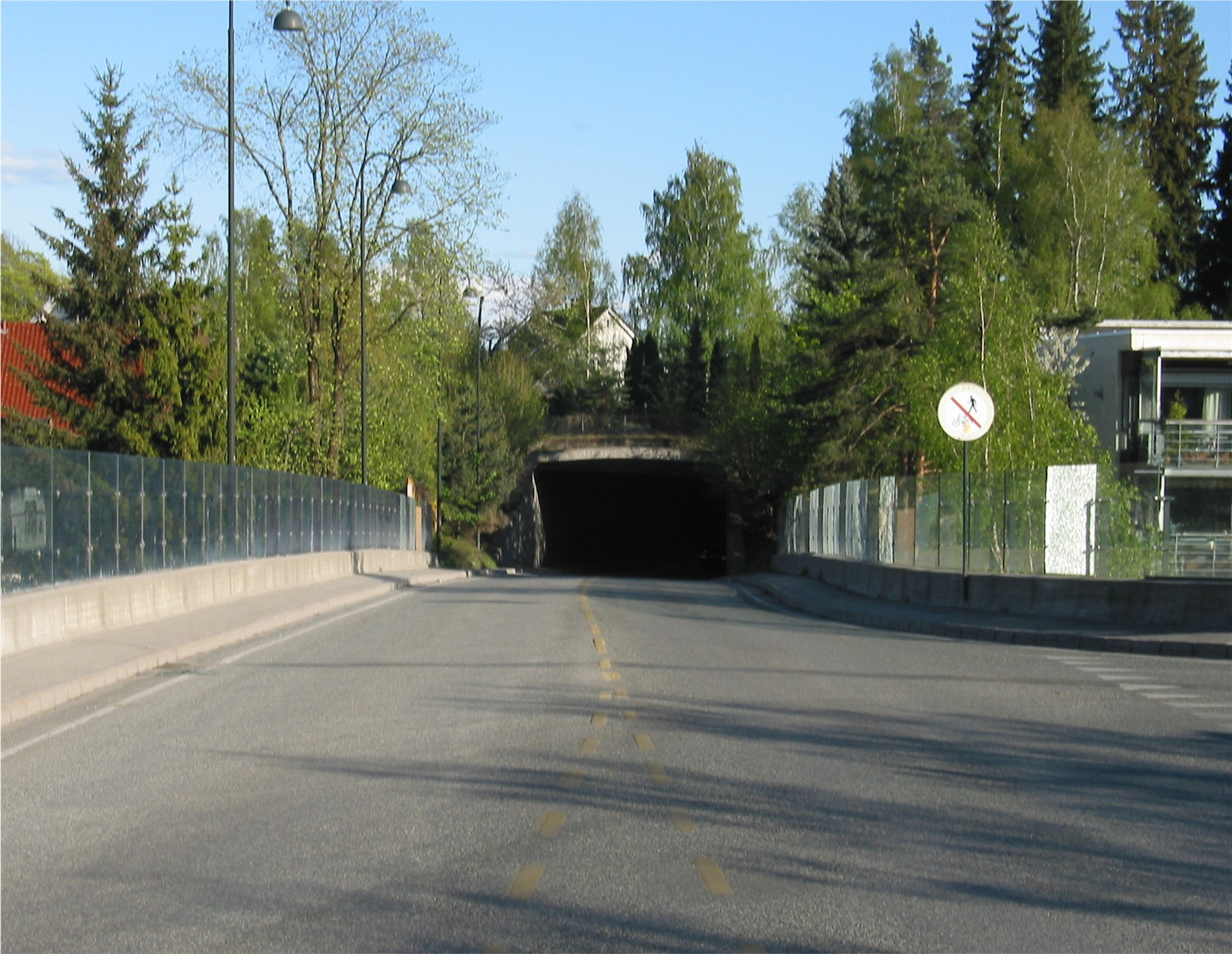 Ringstabekk Tunnel, northern entrance.